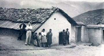 Alasht Reza Khan's birth cottage